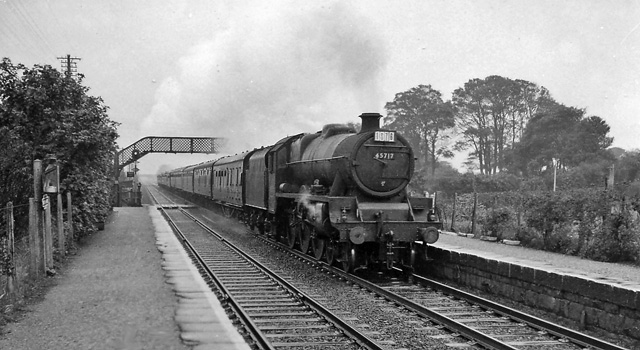 Bolton-le-Sands Station, with Down Express. View SW, towards Lancaster, Preston and the South; Lancaster - Carlisle section of ex-LNW West Coast Main Line. Station closed 3/2/69. The express is the 16.35 Liverpool (Exchange) to Glasgow (Central), hauled by a splendid Stanier 'Jubilee' class 4-6-0.